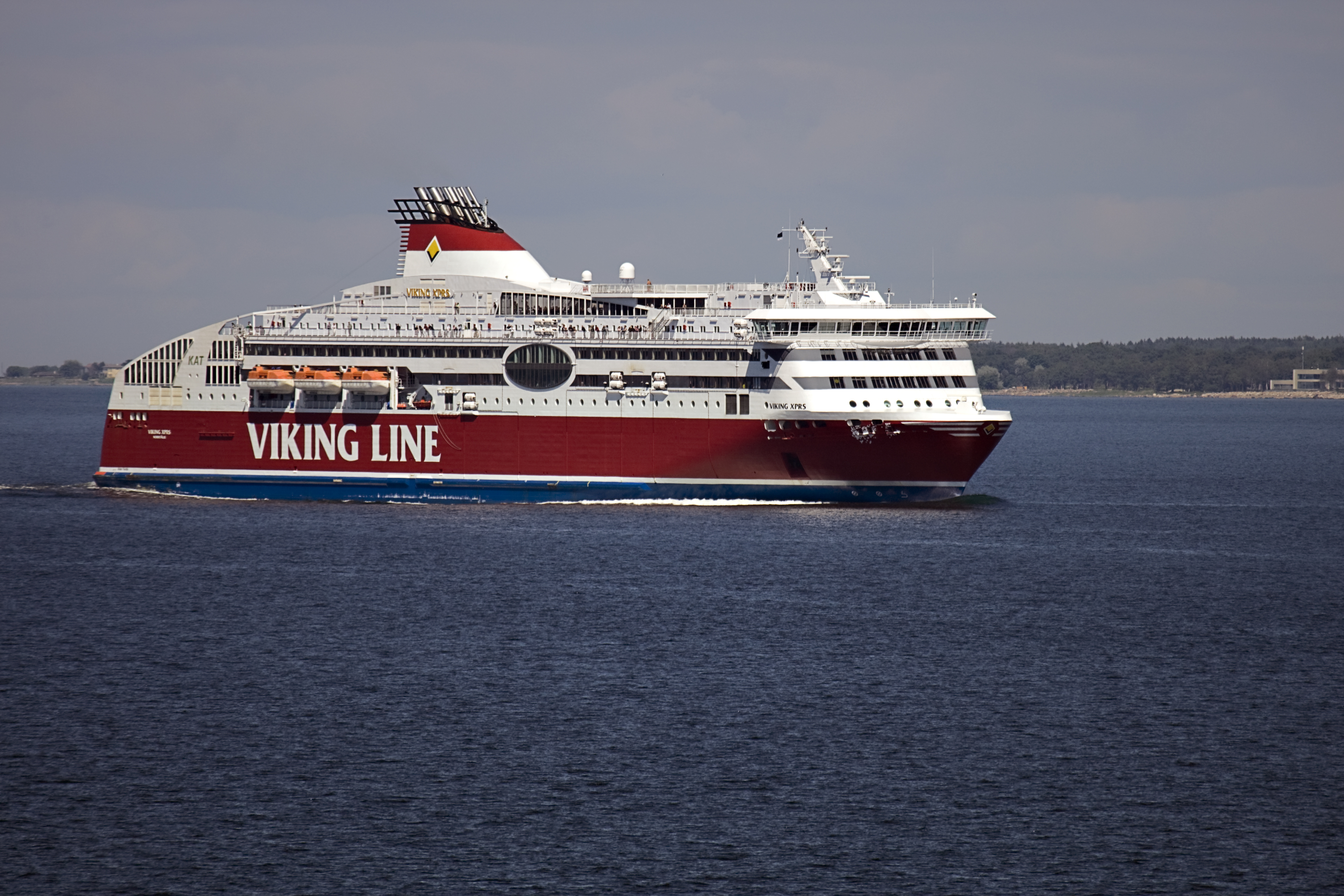 Viking XPRS arriving Tallinn harbor, 2 July 2010